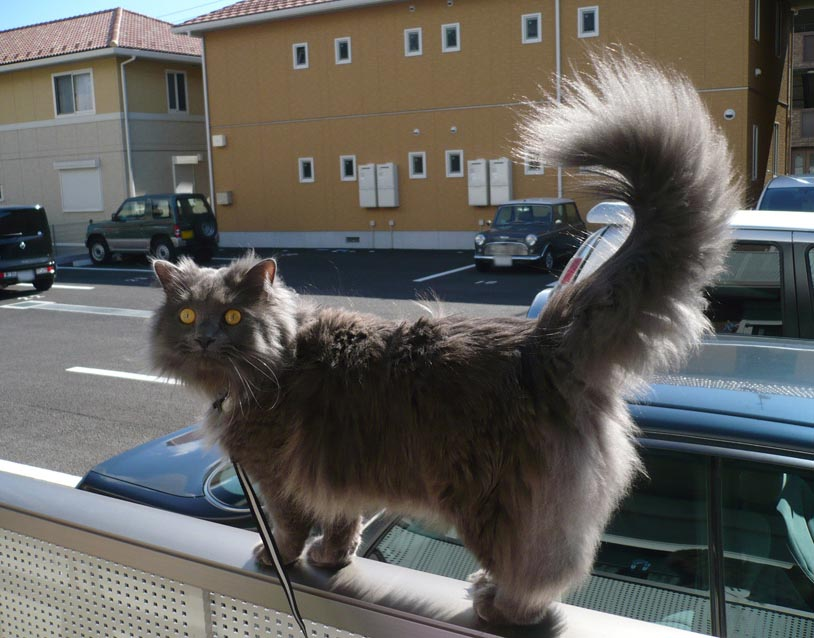 Photograph of a Tiffany cat called Kumori (曇). Tsukuba, Japan.